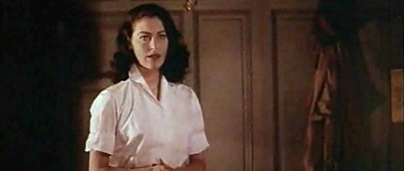 Cropped screenshot of Ava Gardner from the trailer for the film Bhowani Junction.